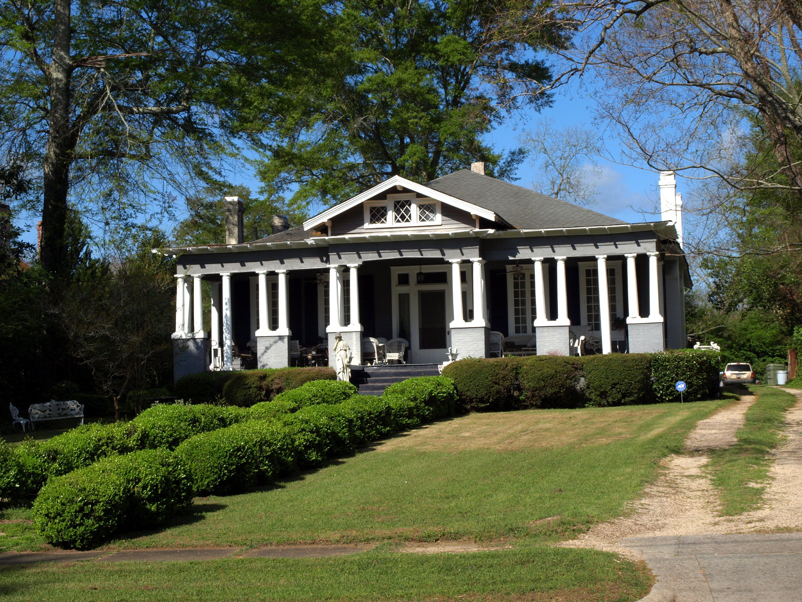 The Thigpen-Powell-Porter-Solomon House in Greenville, Alabama, part of the Fort Dale-College Street Historic District.